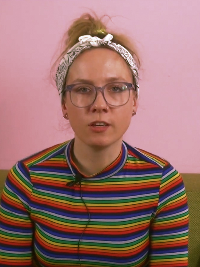 Aafke Romeijn 2-7-2017